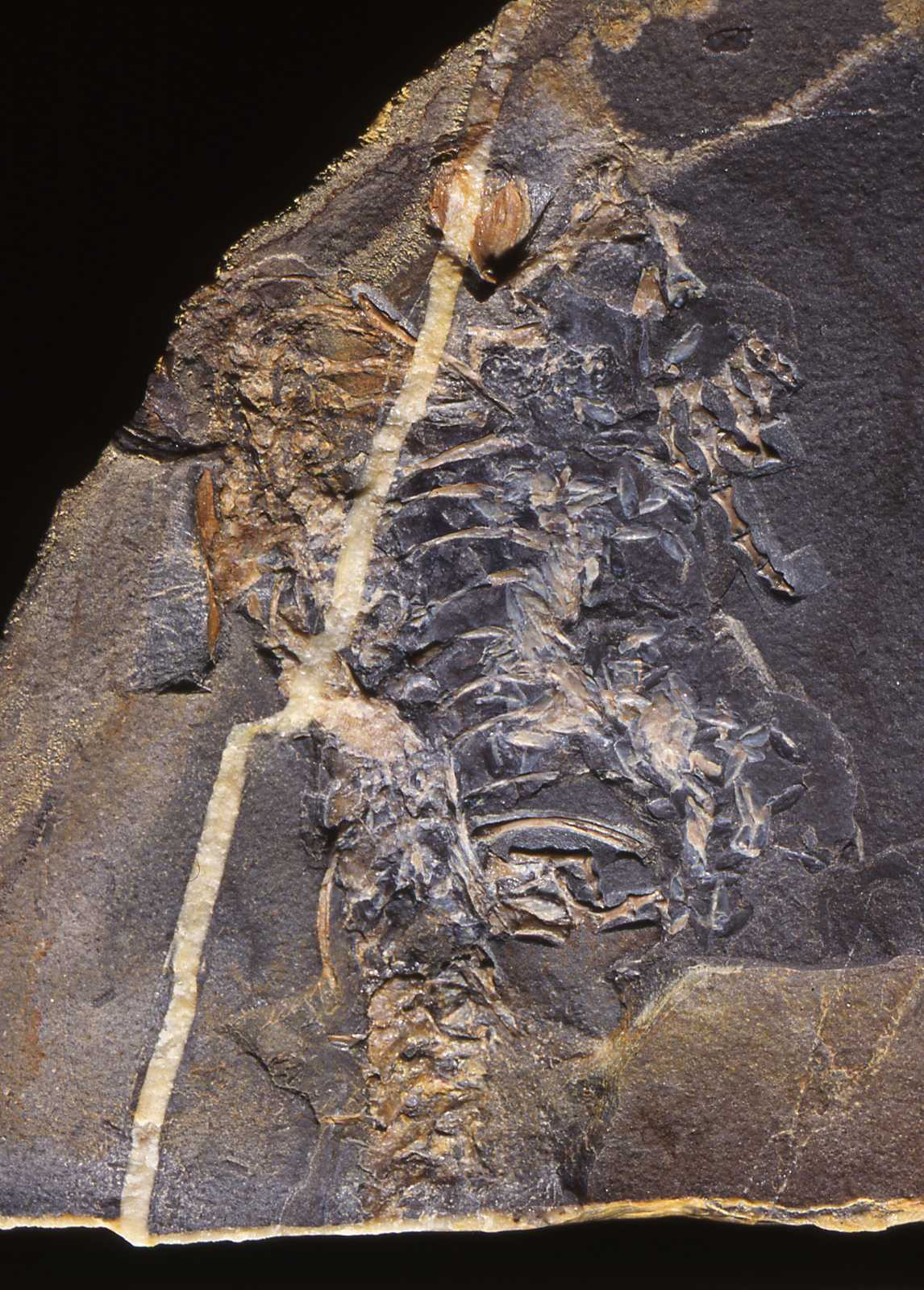 The holotype of Casineria Kiddi from the Lower Carboniferous of Gullane, East Lothian, Scotland, UK